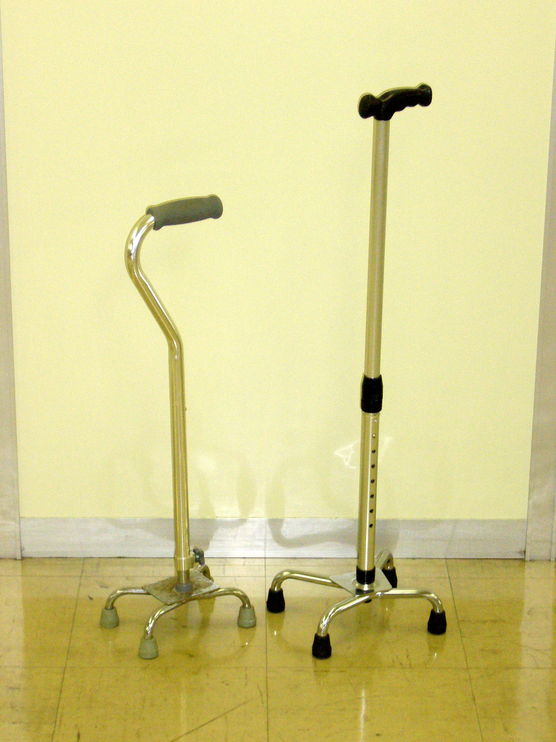 Four-legged crutches